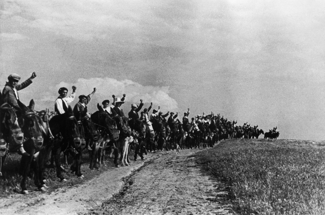 A committee of peasants saluting, with their fists, militians leaving to join the forces of Madrid. 1936, Extremadura (Spain).